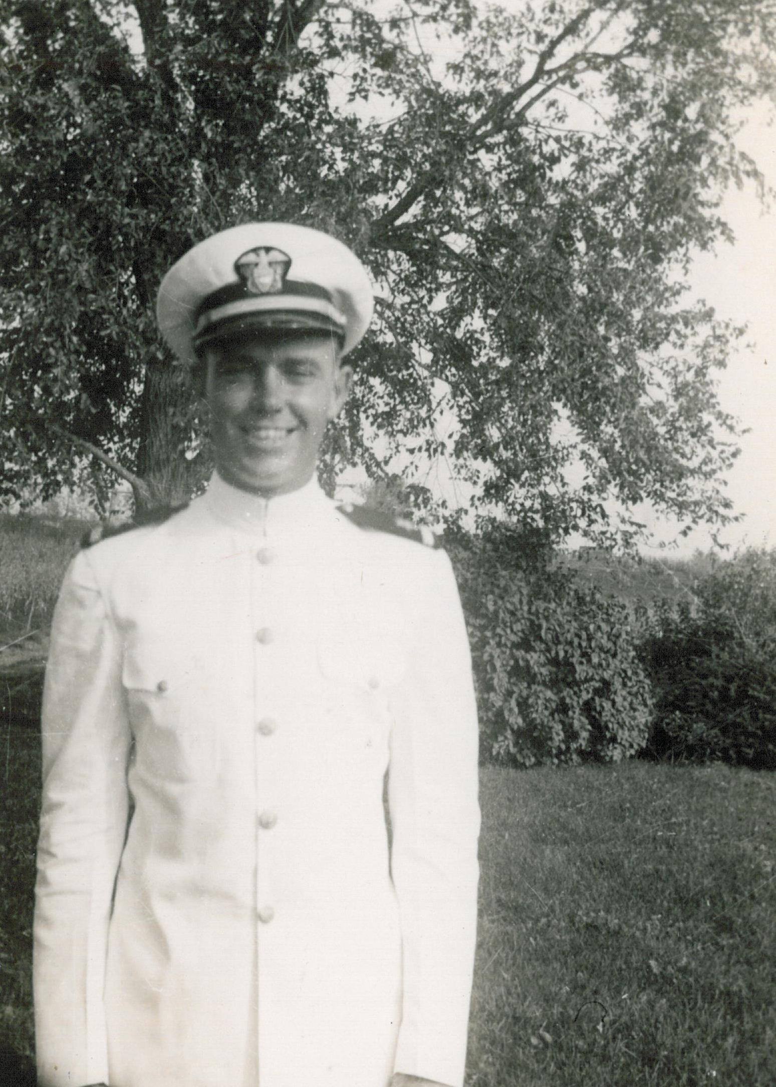 Ensign Donald T Griswold dress whites